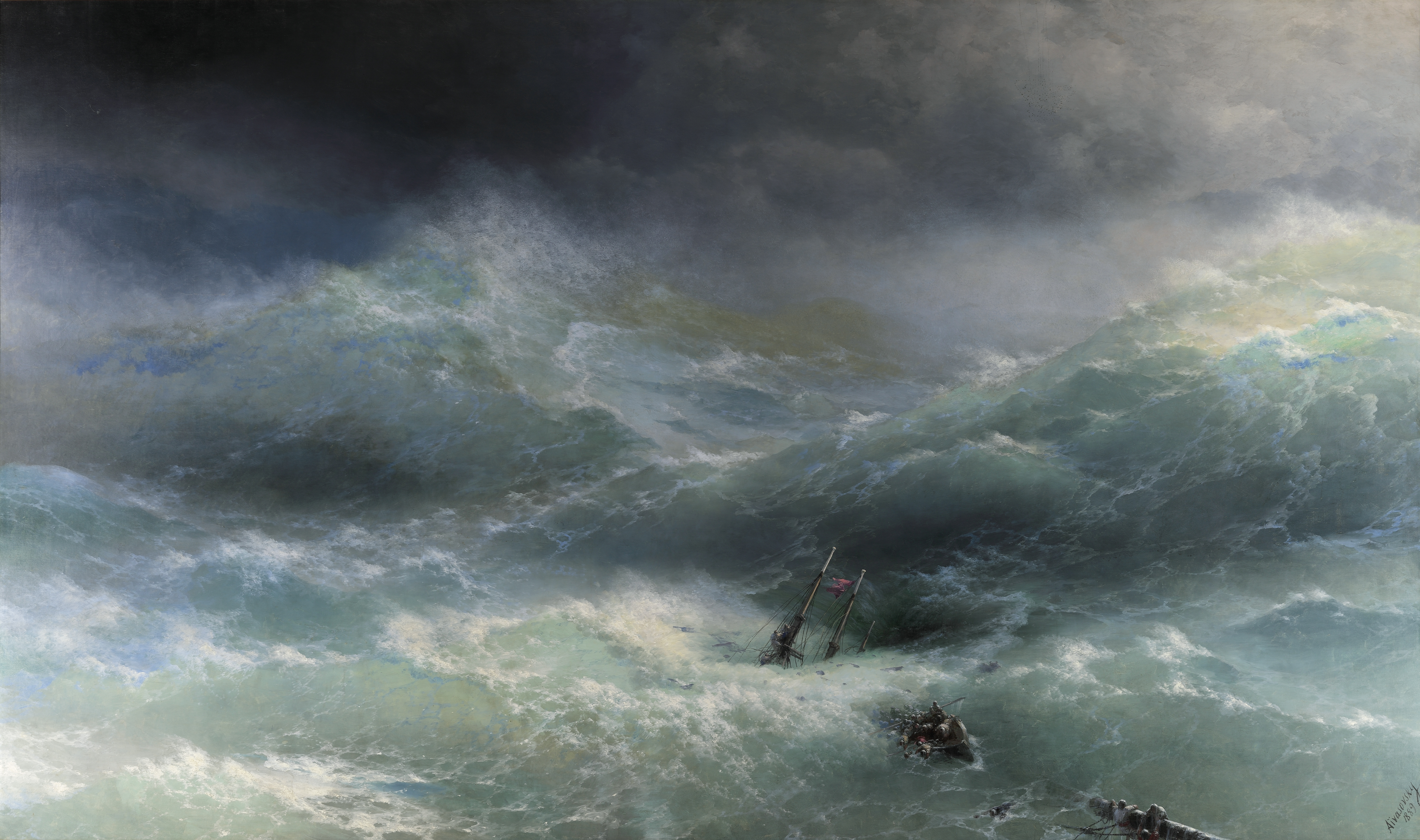 The wave (1889), by Ivan Aïvazovski